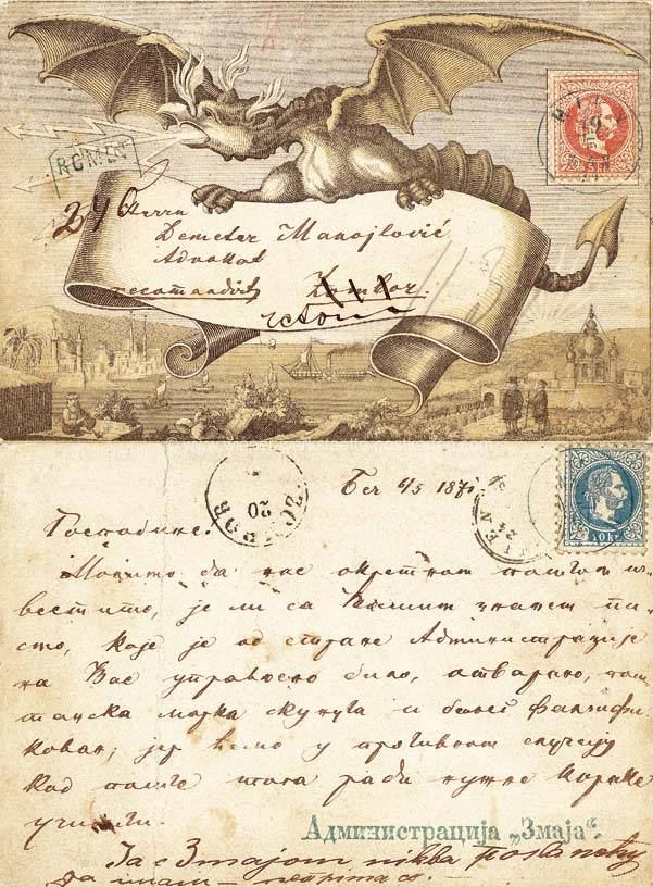 Oldest known Austrian-Hungarian picture postcard, sent from Vienna to Zombor (Sombor) and back to Vienna; date sent: May, 19th 1871. The card was sent out by the Serb Petar Manojlović to his cousin. Postcard is written in Serbian language with Cyrillic script.